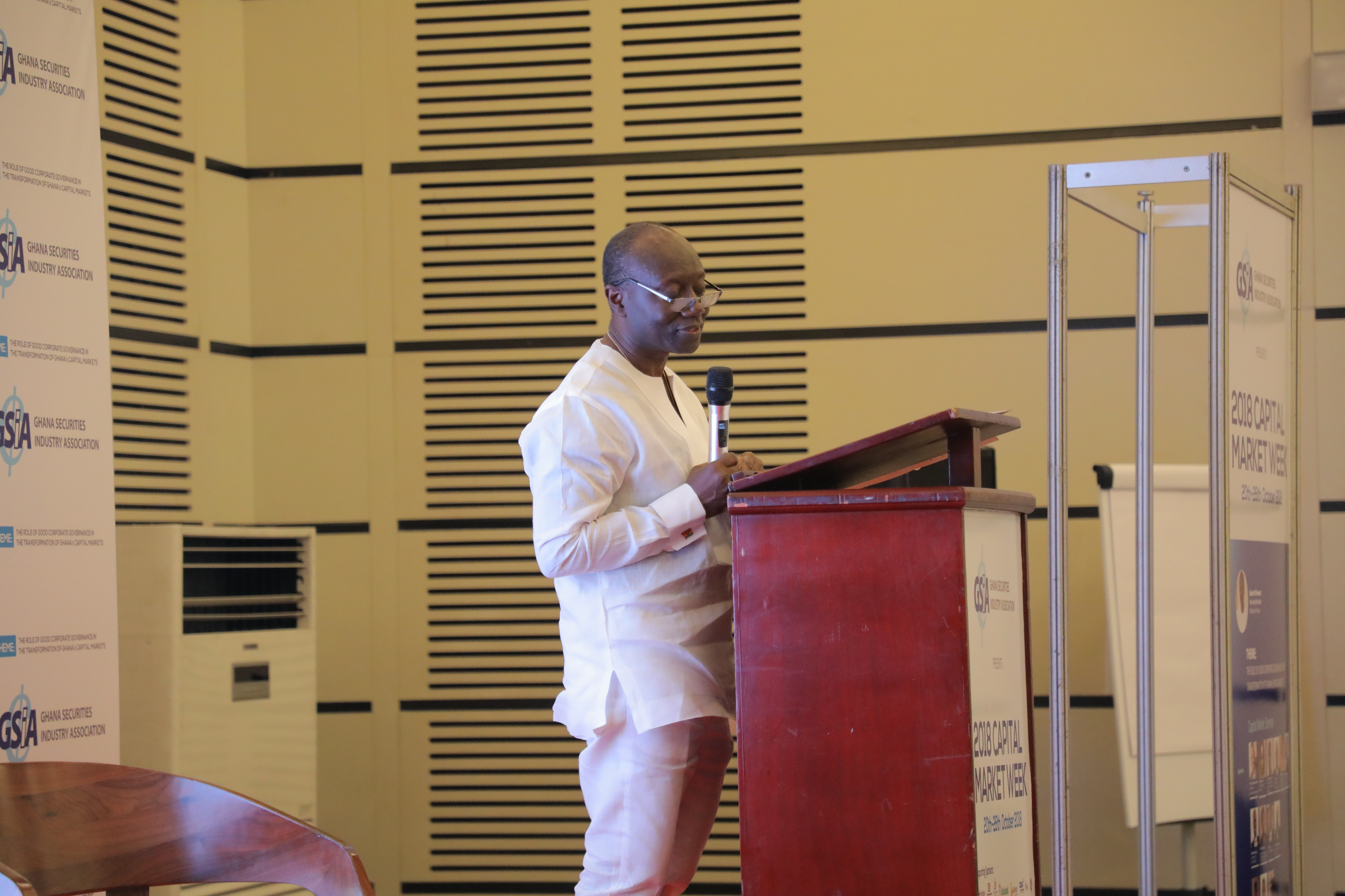 Ken Ofori-Atta speaking at the 2018 Capital Market Week in Accra, Ghana.